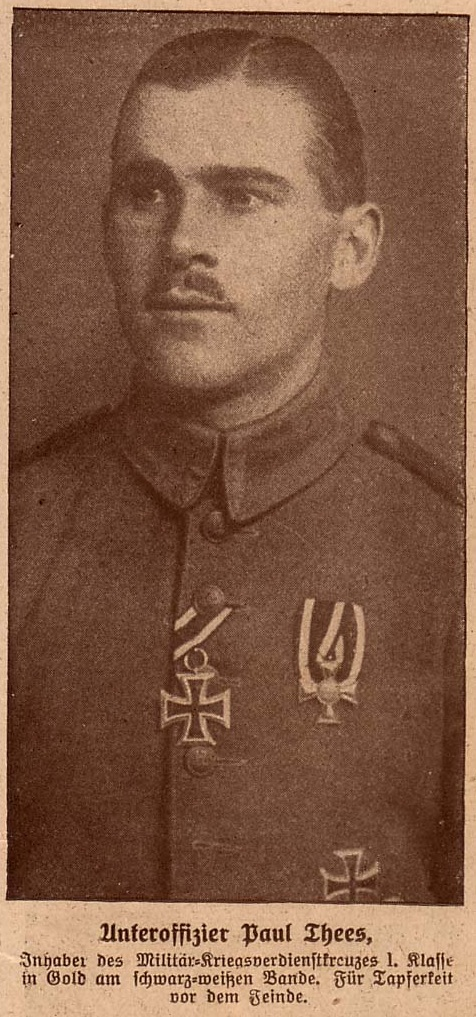 Paul Thees with the prussain Military Merit Cross, Corporal in the prussain field artillery regiment Nr.20